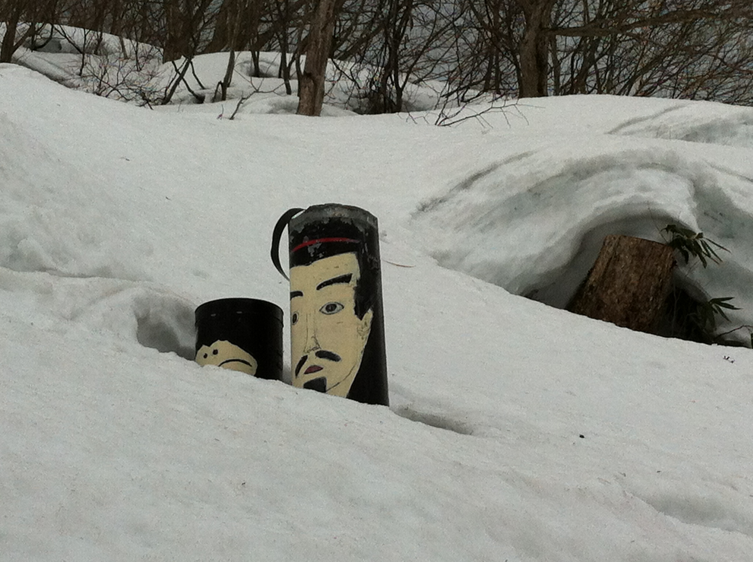 Photograph from March 2013 of Dosojin in snow